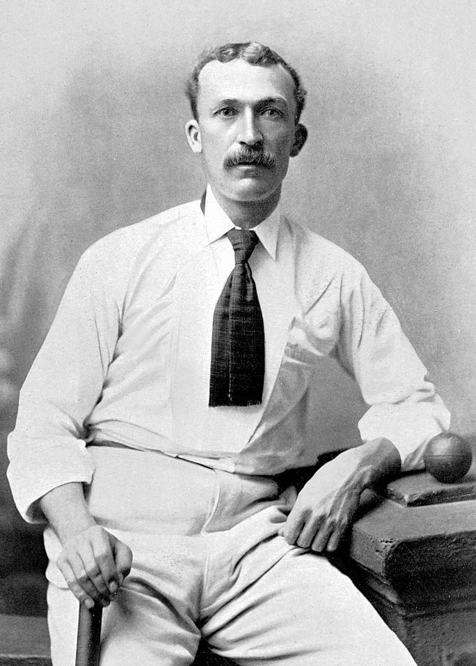 Sport, Cricket, Circa 1895, William Attewell, Nottinghamshire (1881-1899) and England